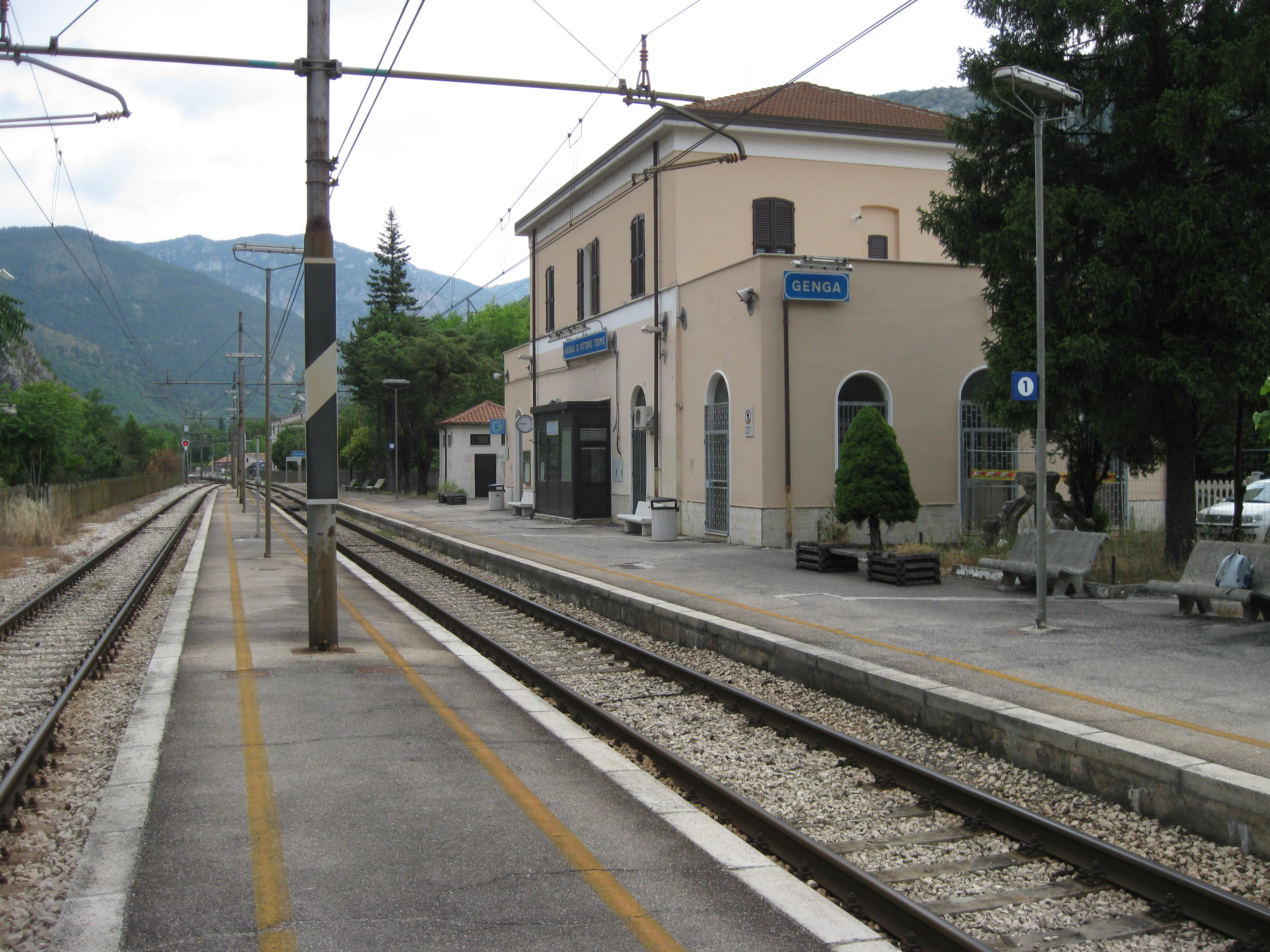 Train station in Genga, Italy